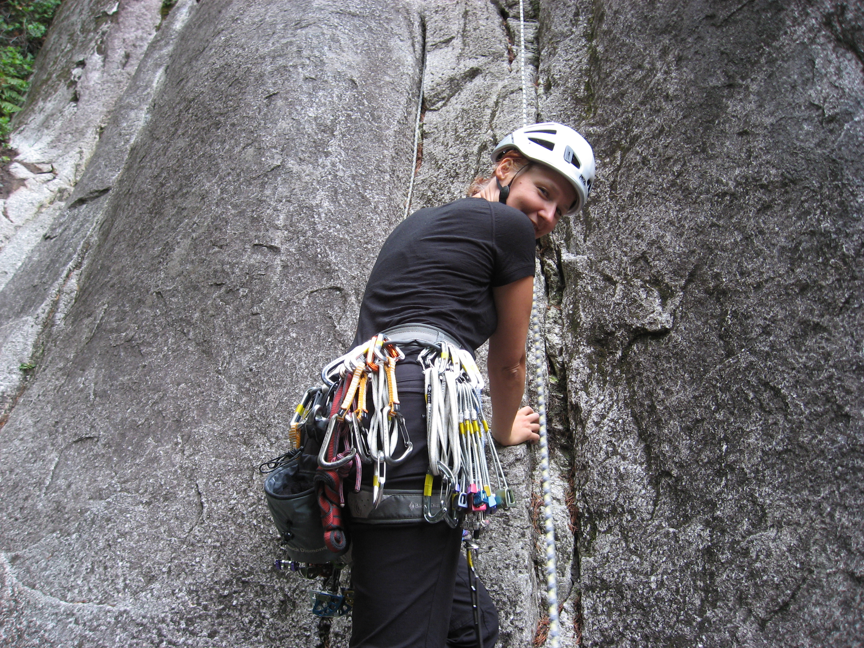 A rock climber with a collection of climbing nuts preparing to climb.